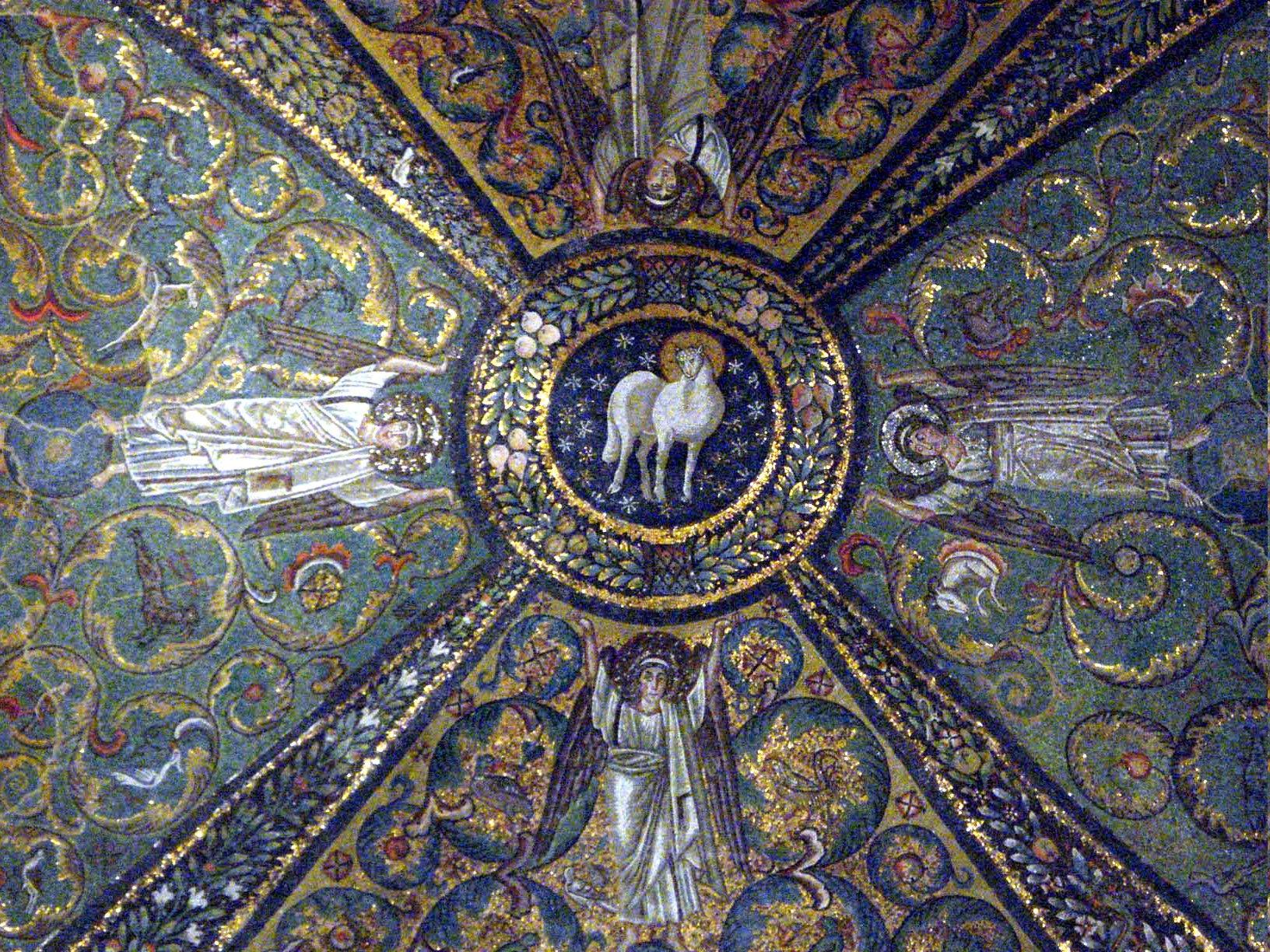 Agnus Dei in cupola mosaic